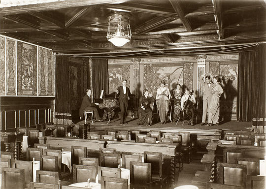 Riddersalen, part of the Lorry entertainment venue, in Frederiksberg, Copenhagen, Denmark